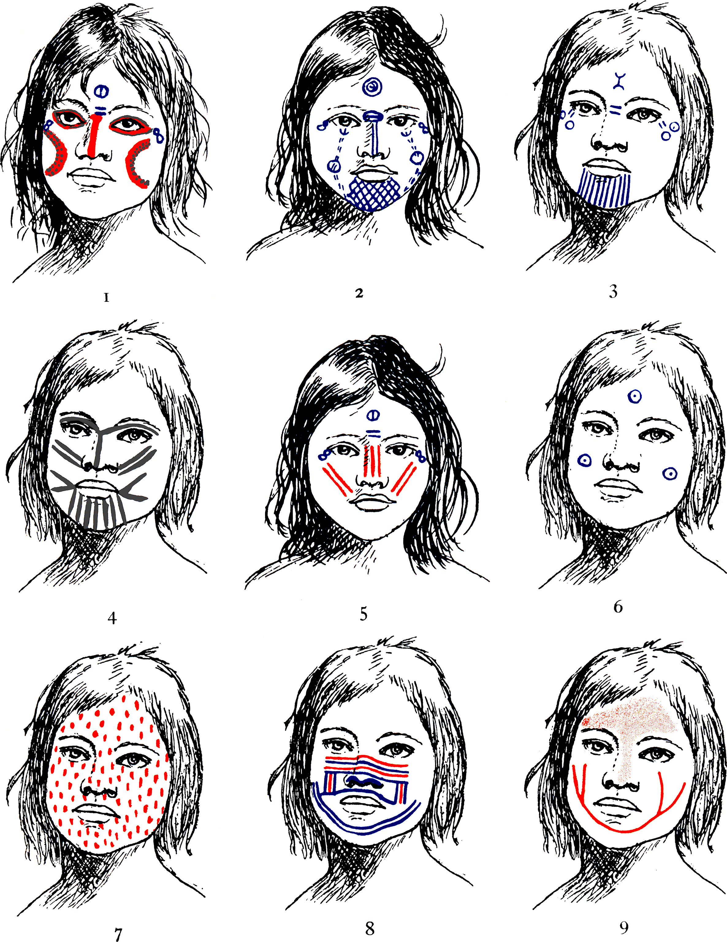 Displaying face painting and tattooing. 1st Choroti, girl. Blue tattoo. Red, painting. A black soot. from Bolivia. 2nd Choroti, girl. Blue tattoo. from Bolivia. 3rd Choroti, man. Tattooed. from Bolivia. 4th Ashluslay, man. Painted with soot. from Bolivia. 5th Girl. Ashluslay father, mother Choroti. She follows her mother's tattoo. Blue, Tattooing. Red. painting. from Bolivia. 6th Mataco-Vejos, man. Tattooed. from Argentina. 7th Yamiaca, man. Painted. from Peru. 8th Tuyoneyri, man. Painted. from Peru. 9th Atsahuaca, man. Painted. from Peru.